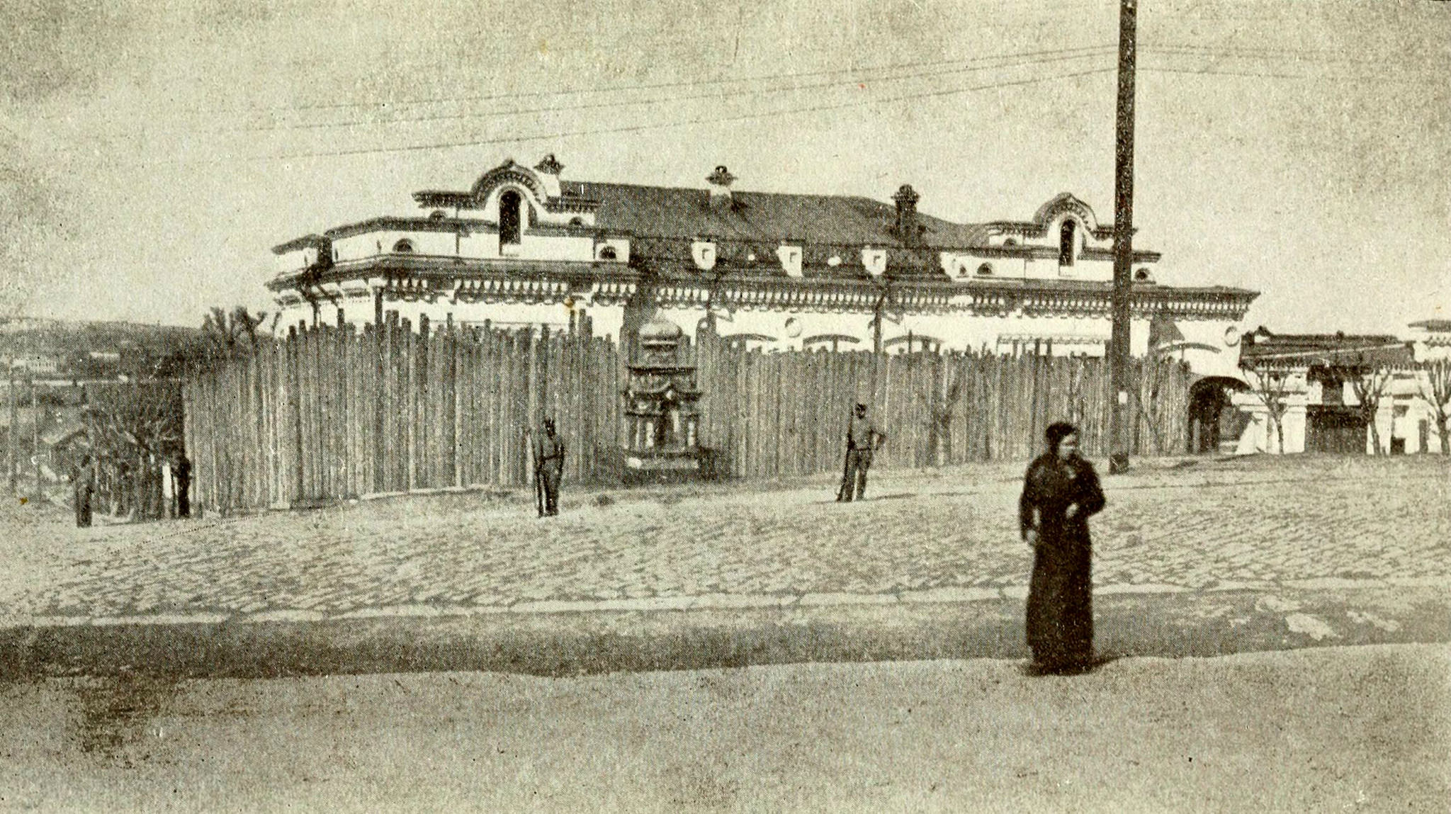 Ipatiev House with the inner fence